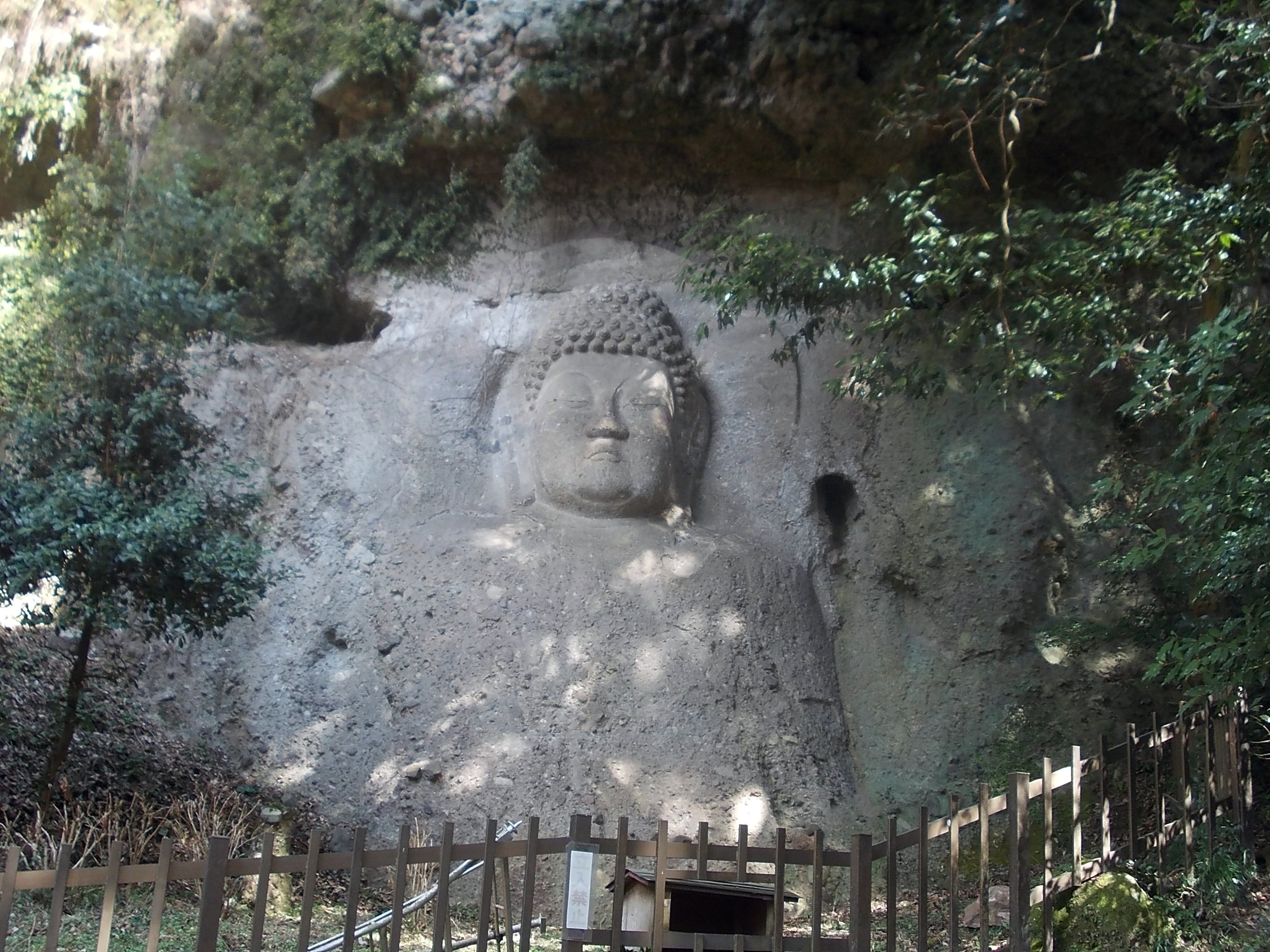 The Dainichi-nyorai statue in Kumano Magaibutsu, Oita, Japan.